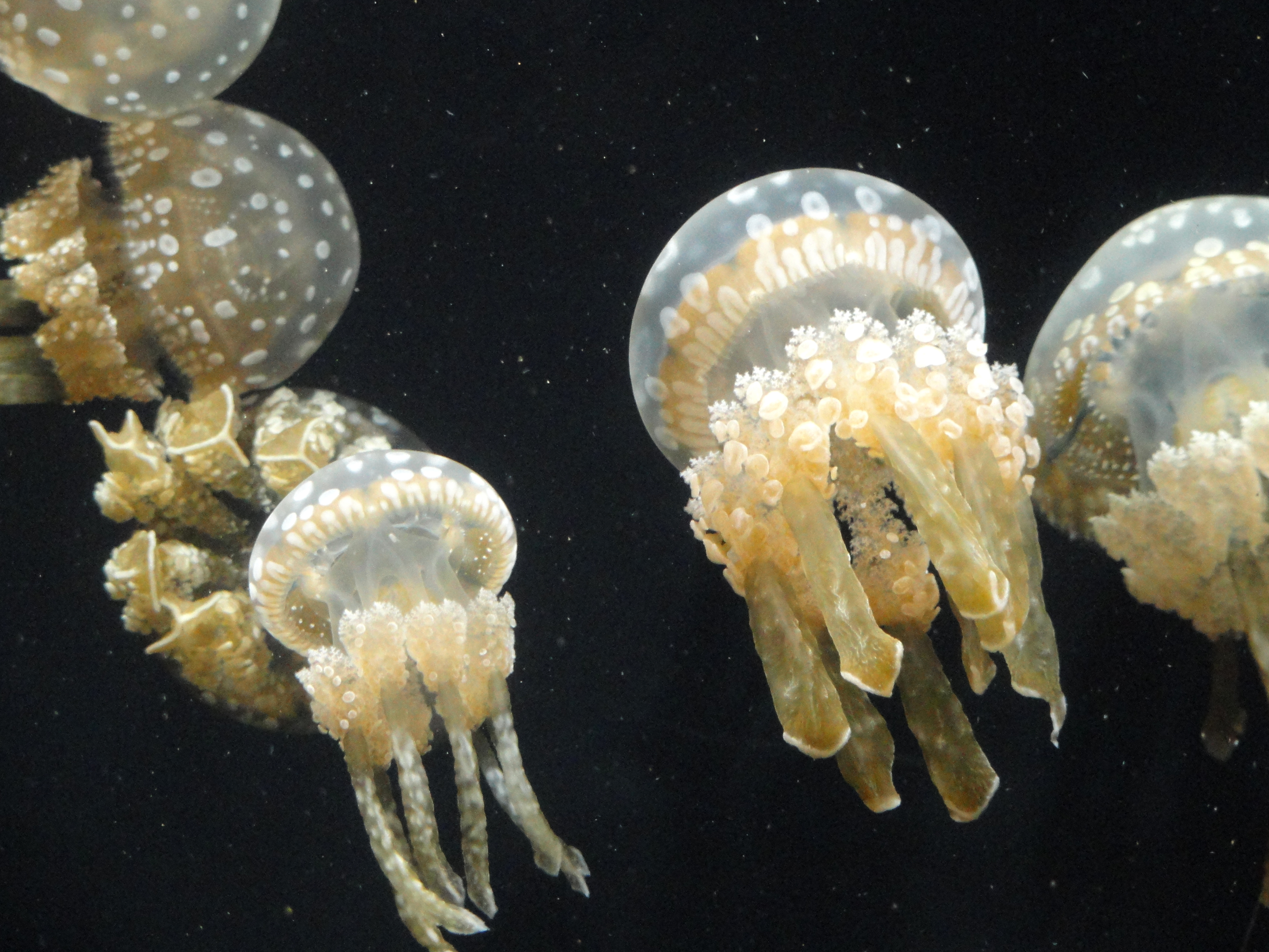 Exhibit in the Monterey Bay Aquarium, Monterey County, California, USA.